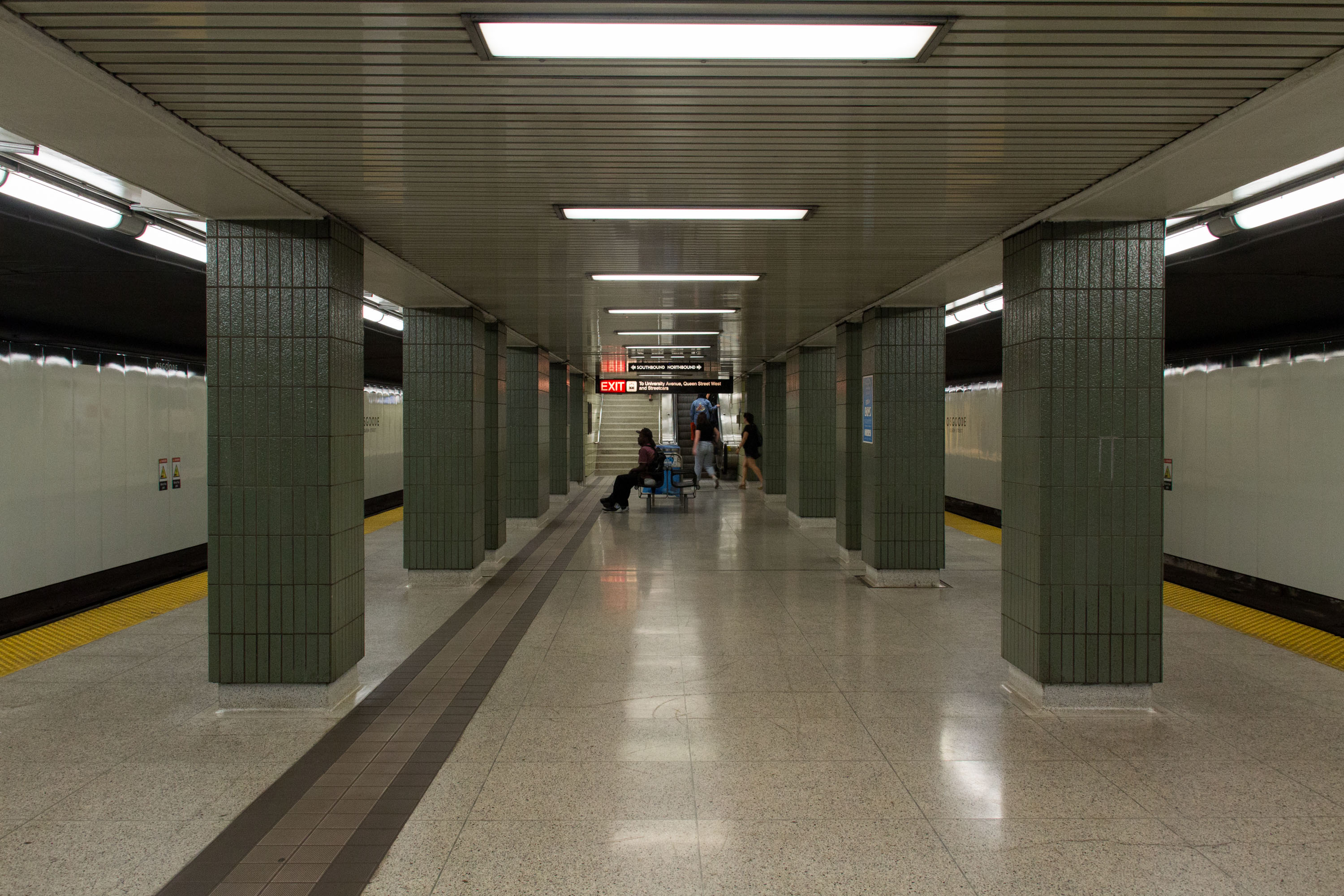 Osgoode Station platform